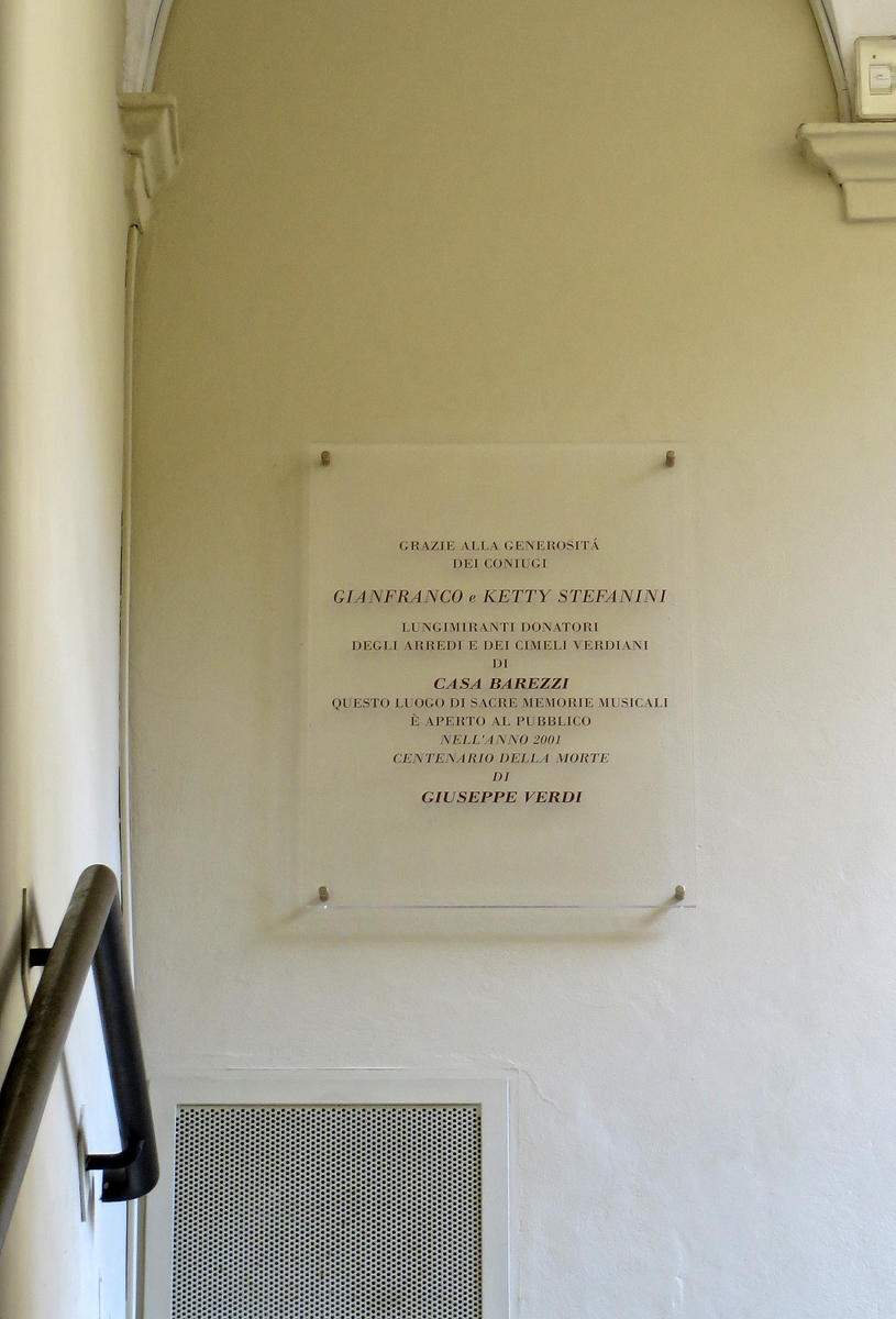 l'abitazione del mecenate del giovane Verdi